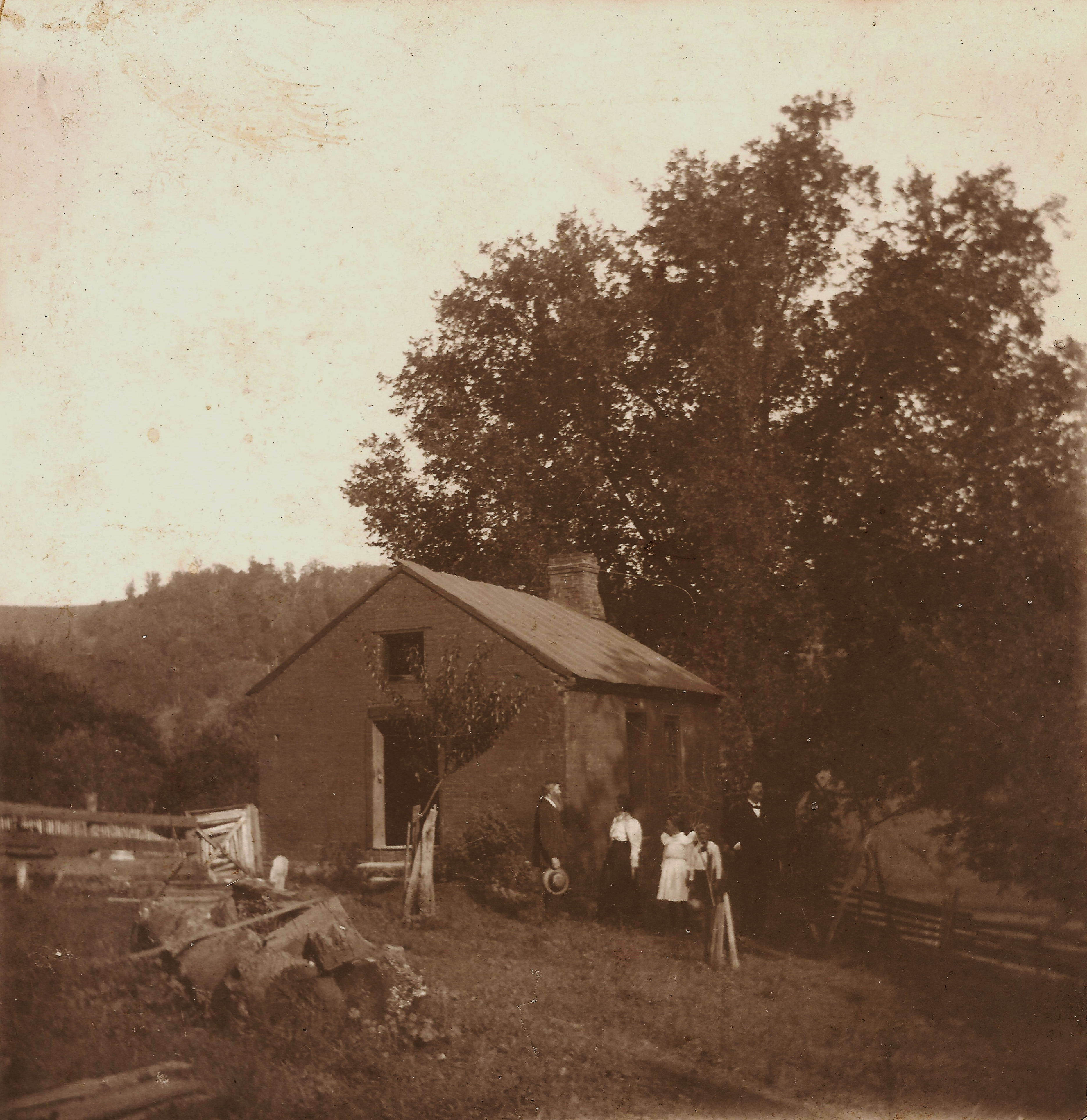 This is a photograph taken circa 1900 of the former slave quarters on the Johnson farm in Tyler County, WV